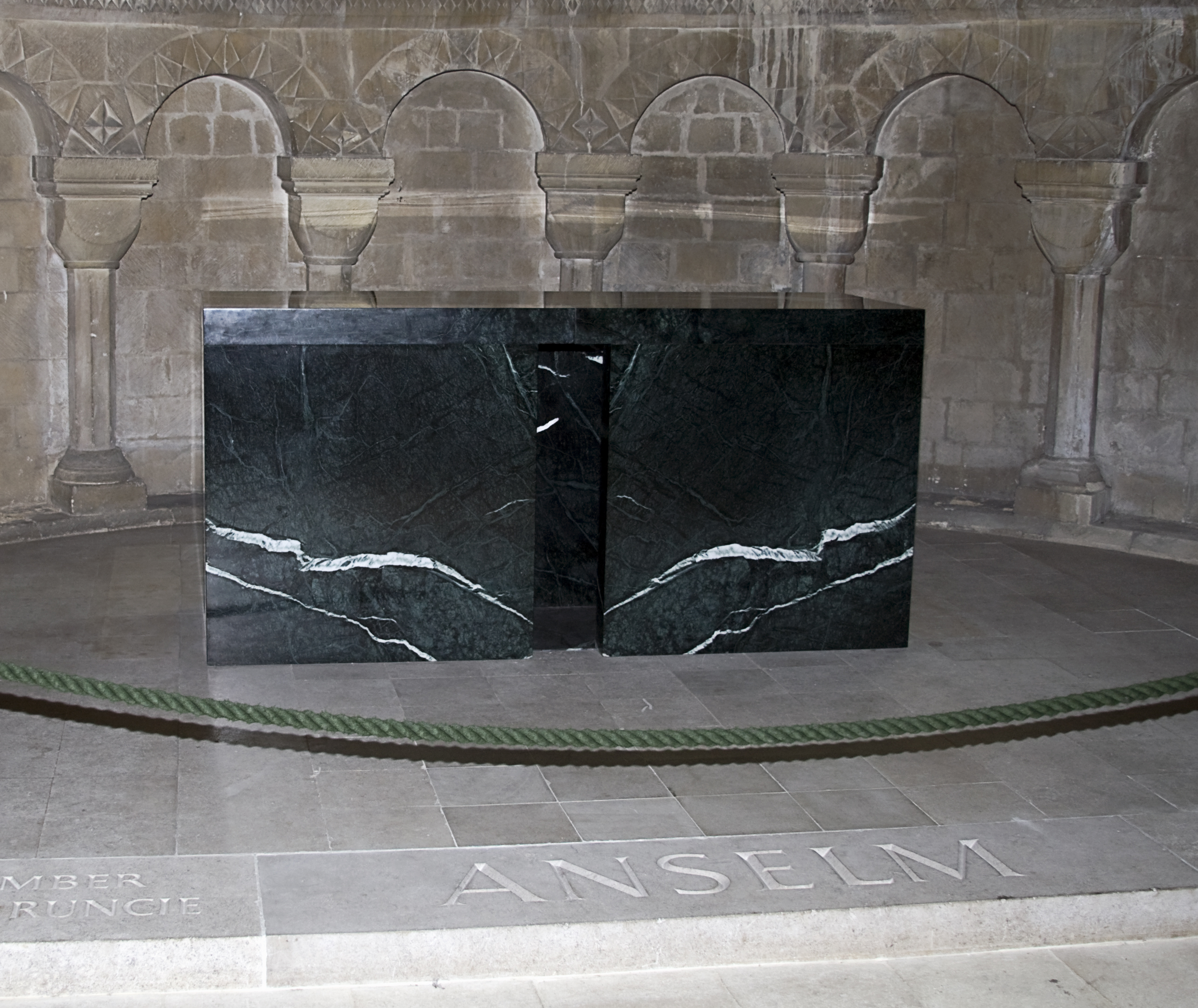 Tomb of Anselm of Canterbury in Canterbury Cathedral